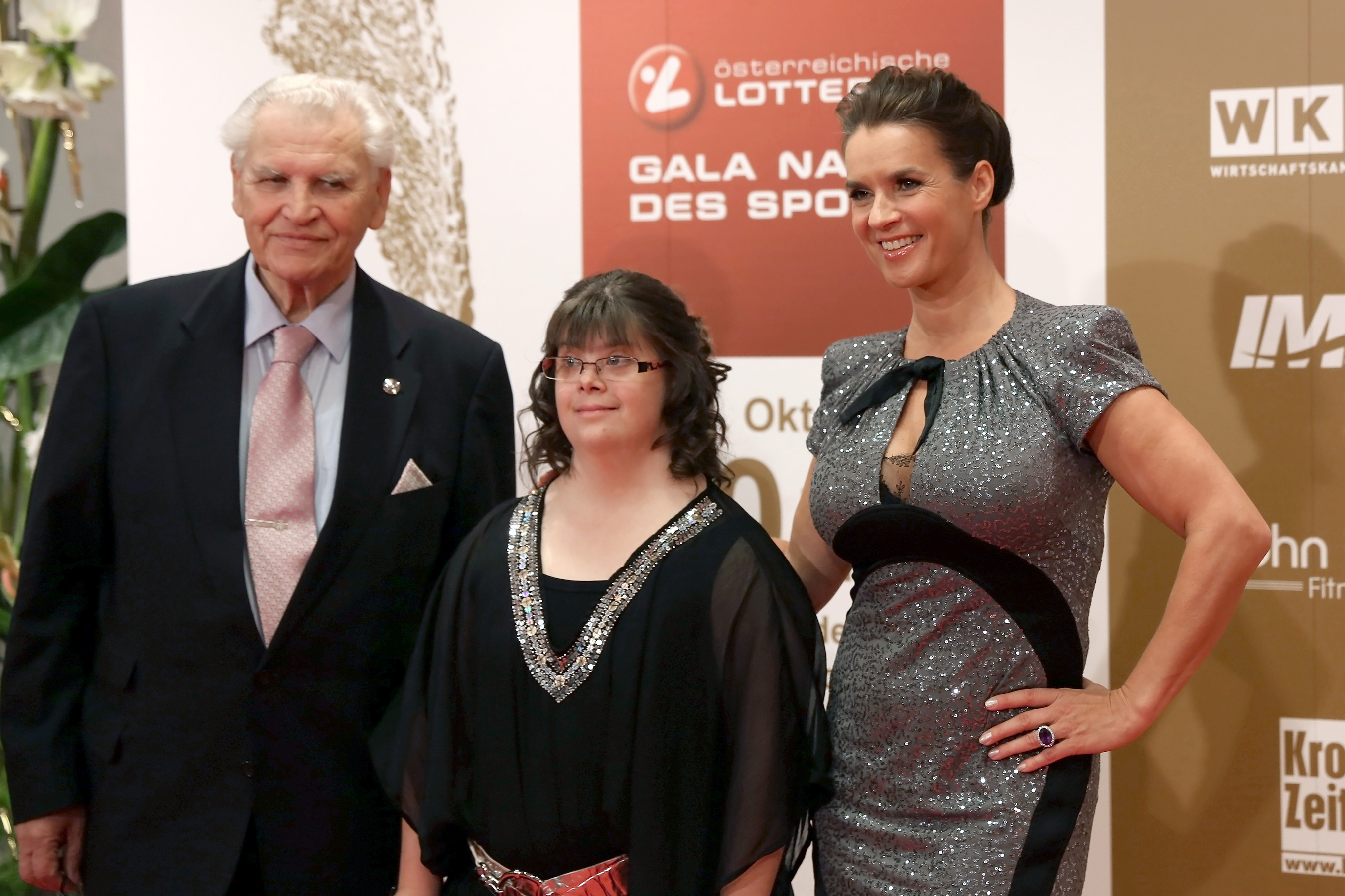 Katarina Witt, Teresa Breuer (winner of the category Special Olympics) and Hermann Kröll (president of Special Olympics Austria) at the award show for the Austrian Sportspersonalities of the Year 2013 at Austria Center Vienna (Vienna, Austria).